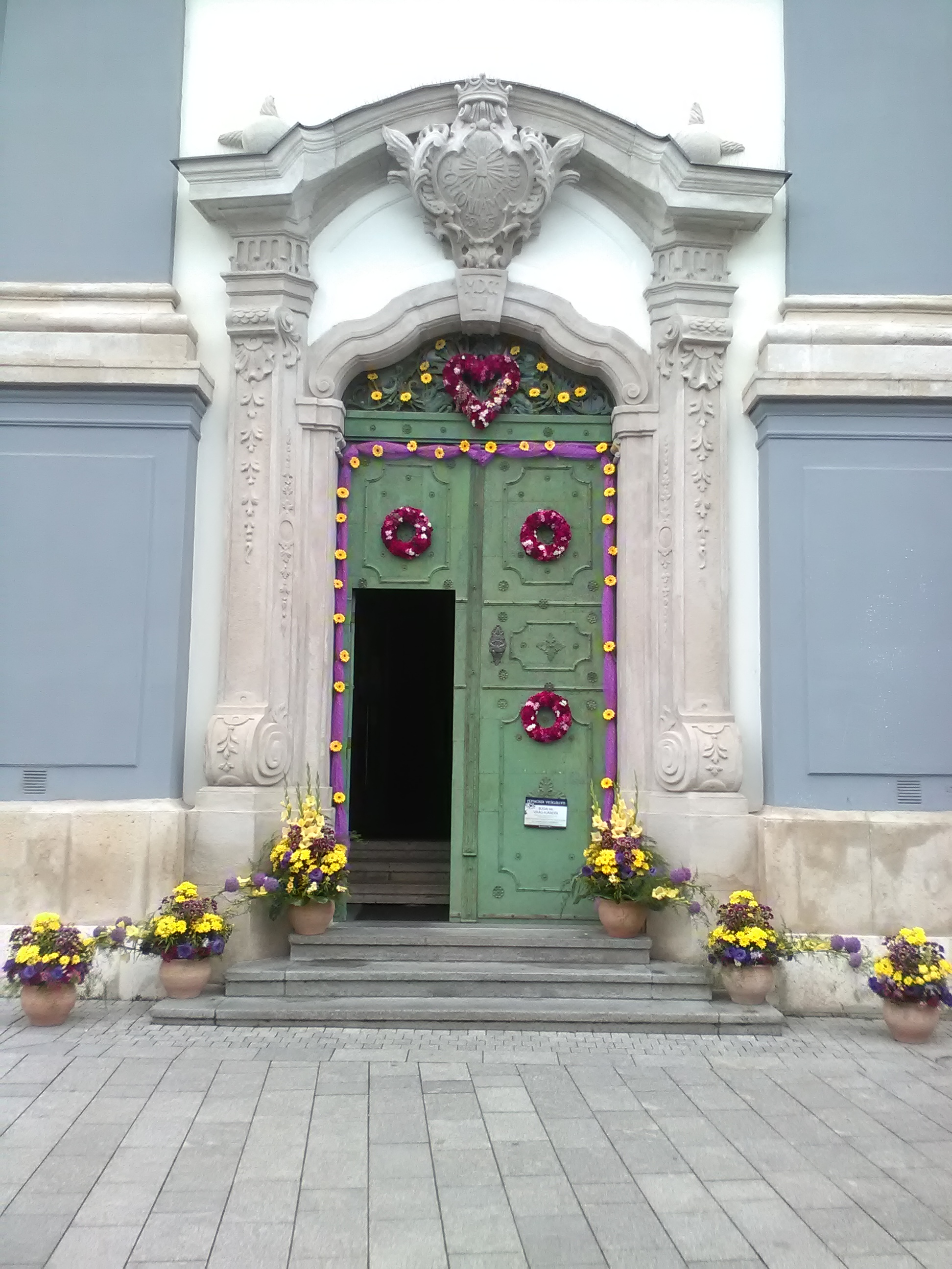 Entrance of the Cistersian Church in Székesfehérvár, Hungary at Pentecost.